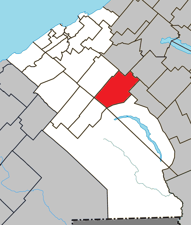 Location of La Rédemption, Quebec within La Mitis Regional County Municipality.